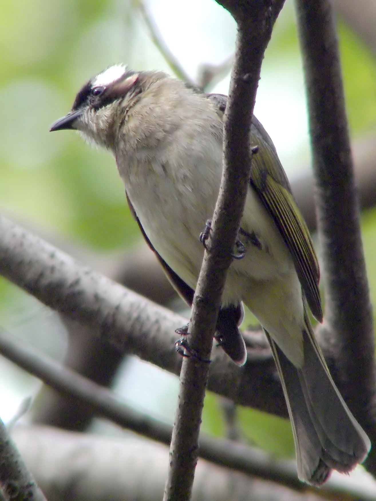 An adult Light-vented Bulbul (also called Chinese Bulbul), Pak Kok, Hong Kong Island,.